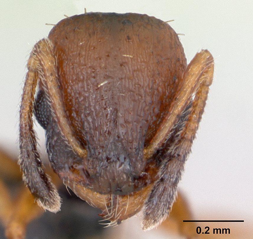 Head view of ant Temnothorax albipennis specimen casent0173192.